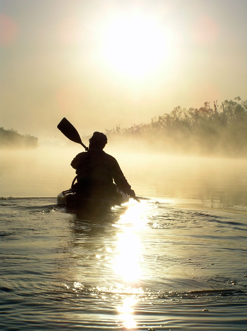 A man paddling in a kayak on the North Canadian River.